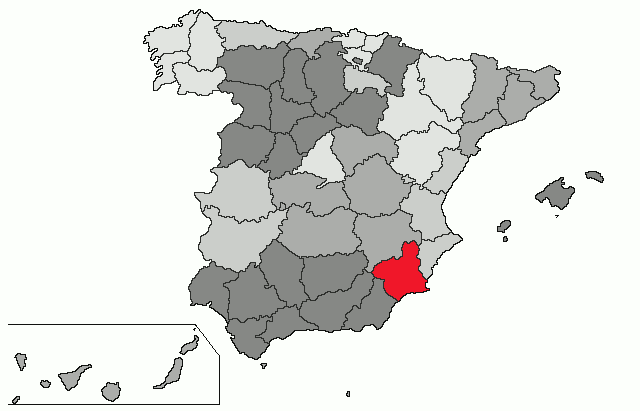 Location of the Murcia region in Spain